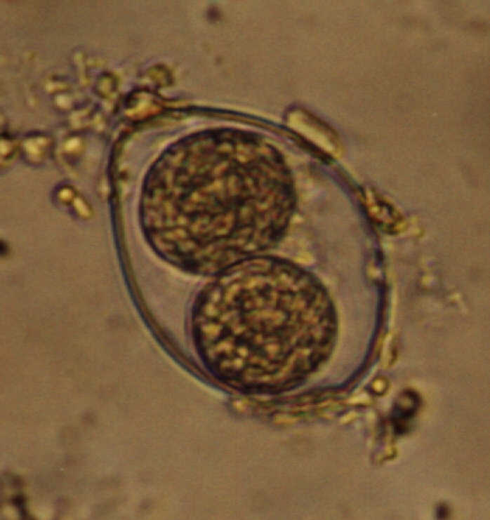 Oocit of Isospora belli, a coccidian protozoan, mammal parasite, belonging to the phylum Apicomplexa.